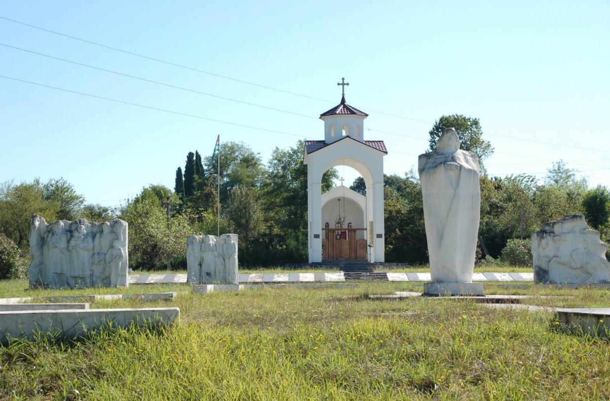 Memorial to the victims of the 1992-1993 war in Lykhny, Abkhazia